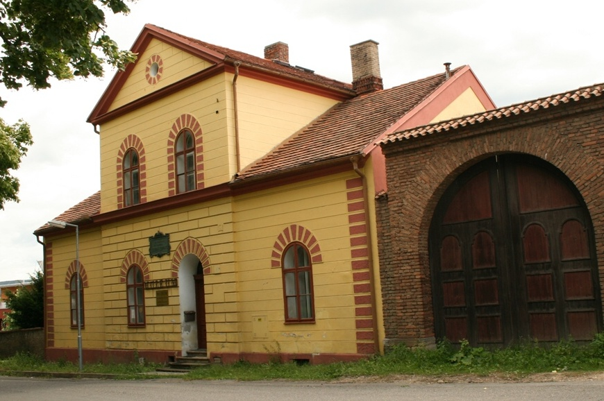 Museum Svatopluk Cech and Jarmila Novotna in Liten. The museum is located in the newly built premises memorable rectory near the church. Peter and Paul, where permanent exhibitions Jarmila Novotna and Svatopluk Cech.